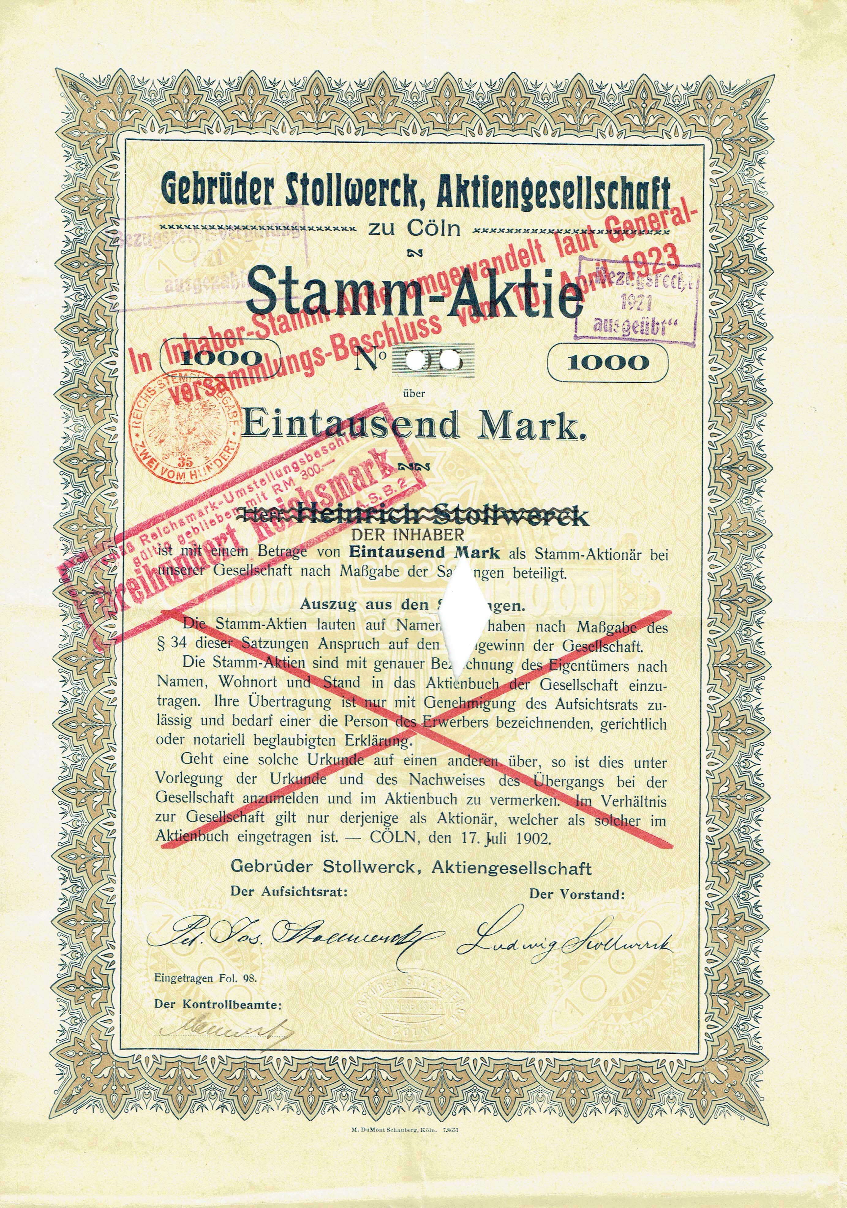 Share of the Gebrüder Stollwerck AG, issued 17. July 1902